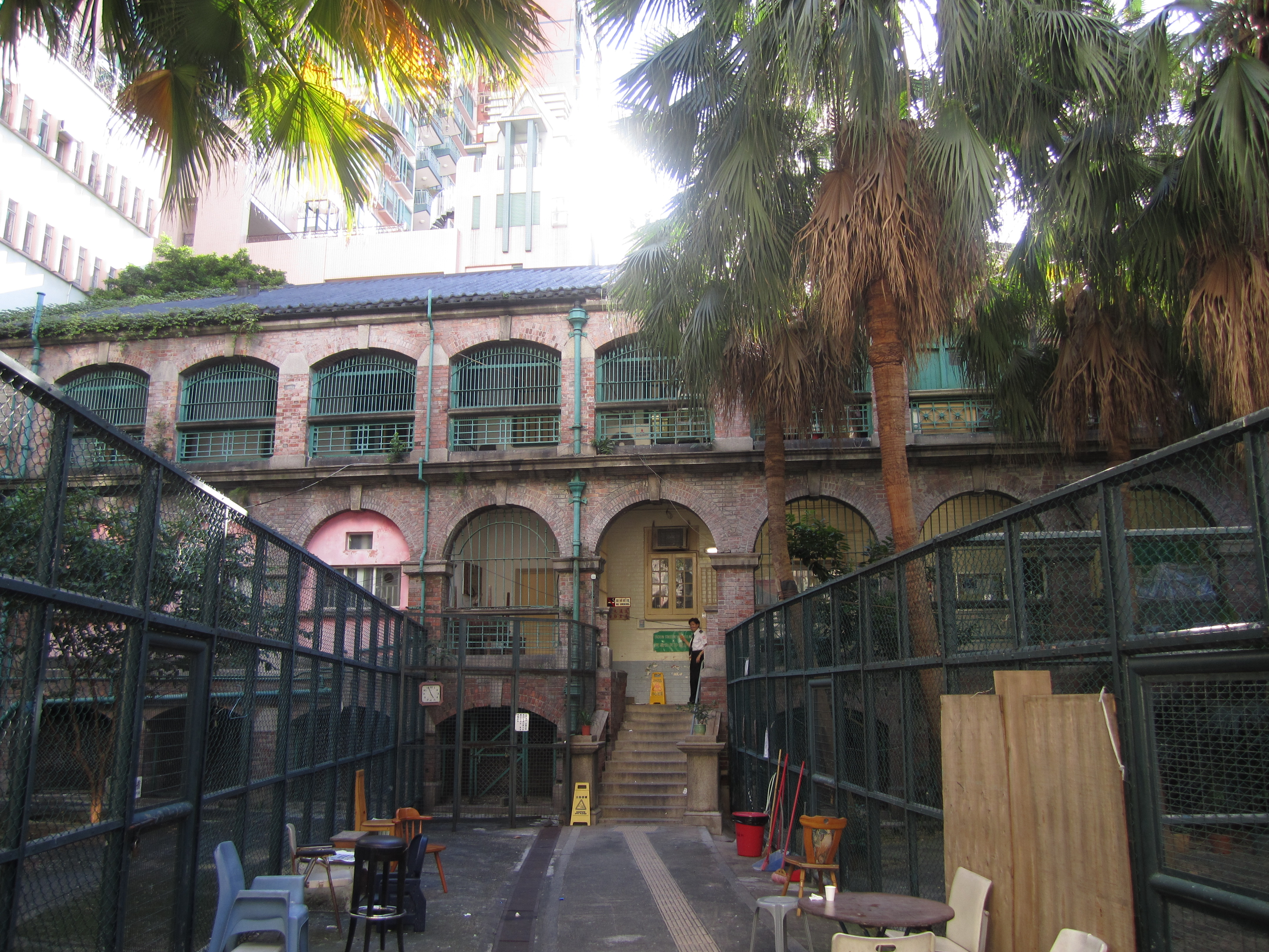 HK Old Lunatic Asylum